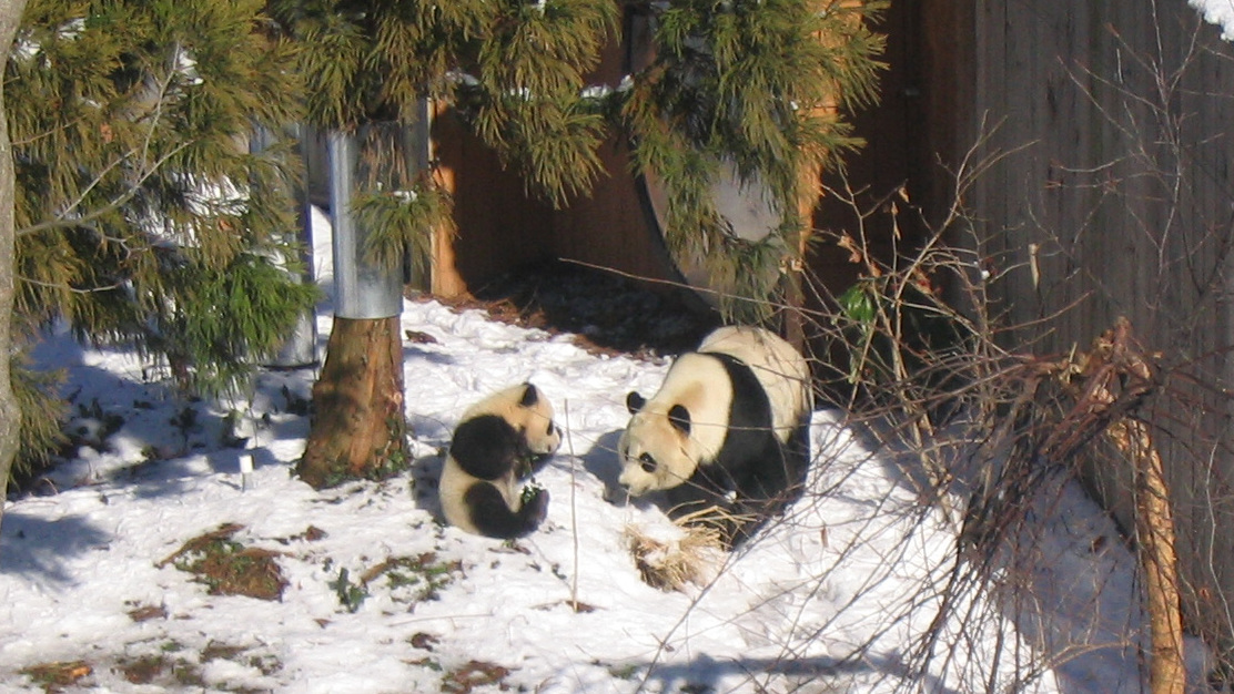 Pandas Tai Shan and Mei Xiang in 2006